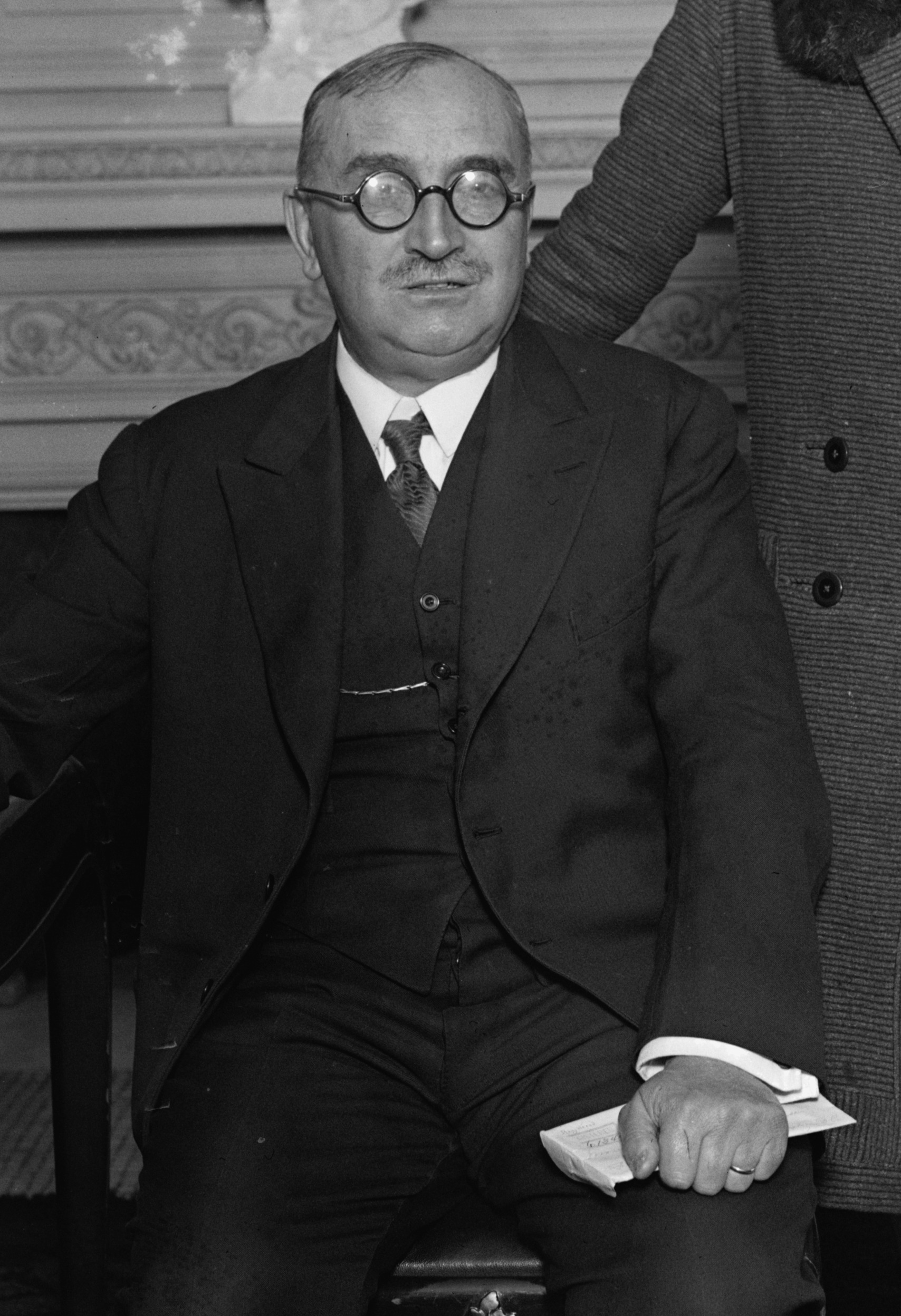 French poet, playwright and diplomat Paul Claudel (1868-1955) with his daughter Reine.